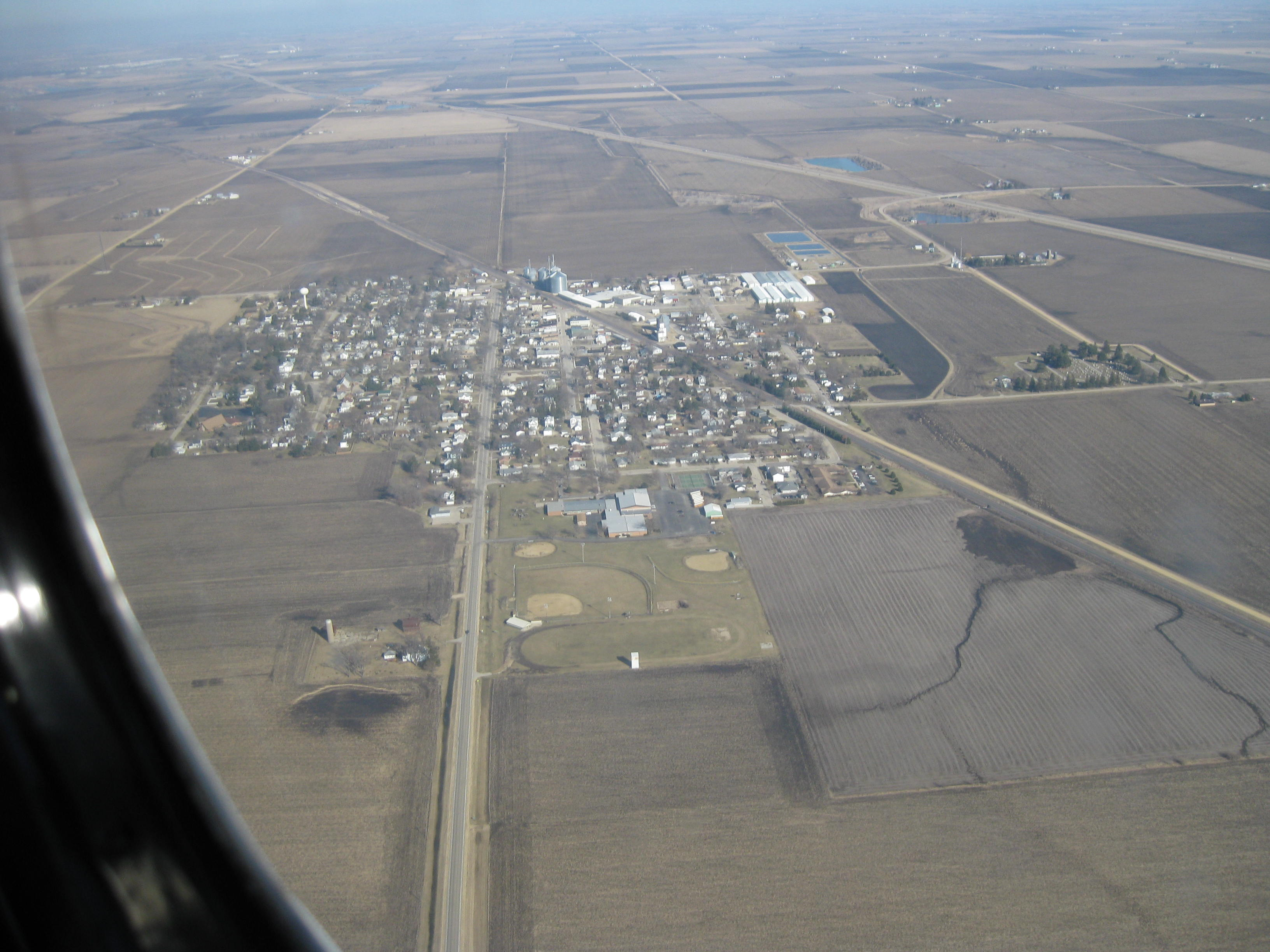 This is an aerial view of Ashton, IL, USA. It was taken from a small aircraft in spring of 2009.